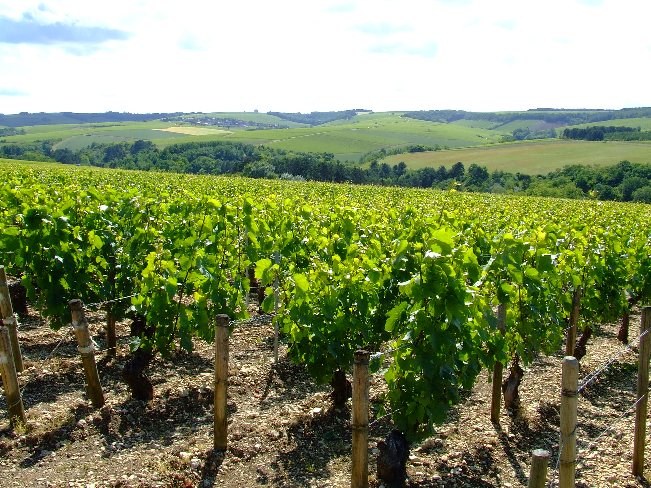 View of the vines just outside the village of Chablis. While it is hard to identify the exact style of trellising being used due to the foliage, most Chablis vineyards used double guyot.